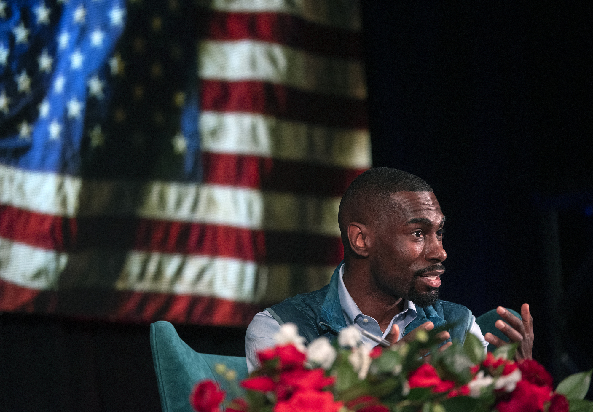 The history of mistrust between minority communities and law enforcement is explored at The Summit on Race in America on Monday, April 8, 2019 at the LBJ Presidential Library. Houston police chief Art Acevedo and Black Lives Matter organizer DeRay Mckesson discuss charges of police misconduct, racial tension, and what can be done to instill greater goodwill. Moderating the panel is Terrance L. Green, associate professor in the Department of Education Leadership and Policy at The University of Texas at Austin.